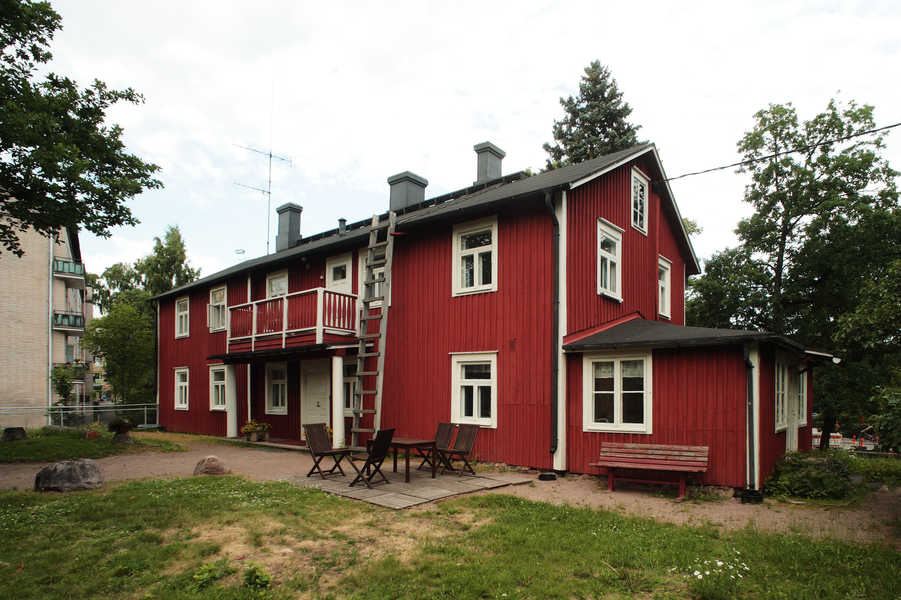 Punainen Huvila (Red Villa) in Lauttasaari, Helsinki, built 1792.